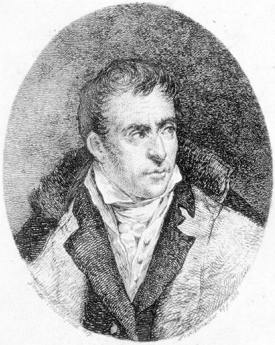 French violinist Alexandre Boucher (1778-1861) by Frédéric-Désiré Hillemacher (1811-1886) after Anne-Louis Girodet-Trioson (1767-1824).